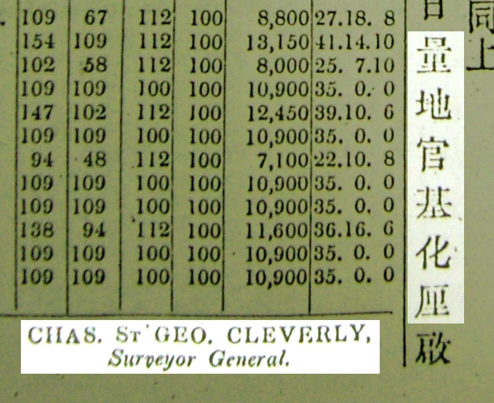 Highlight of the Name of Charles St George Cleverly (基化厘), derived from Hong Kong Government Gazette in 1855.